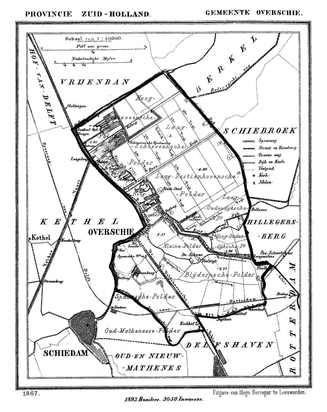 Historic map of Overschie (now part of municipality Rotterdam), South Holland, the Netherlands